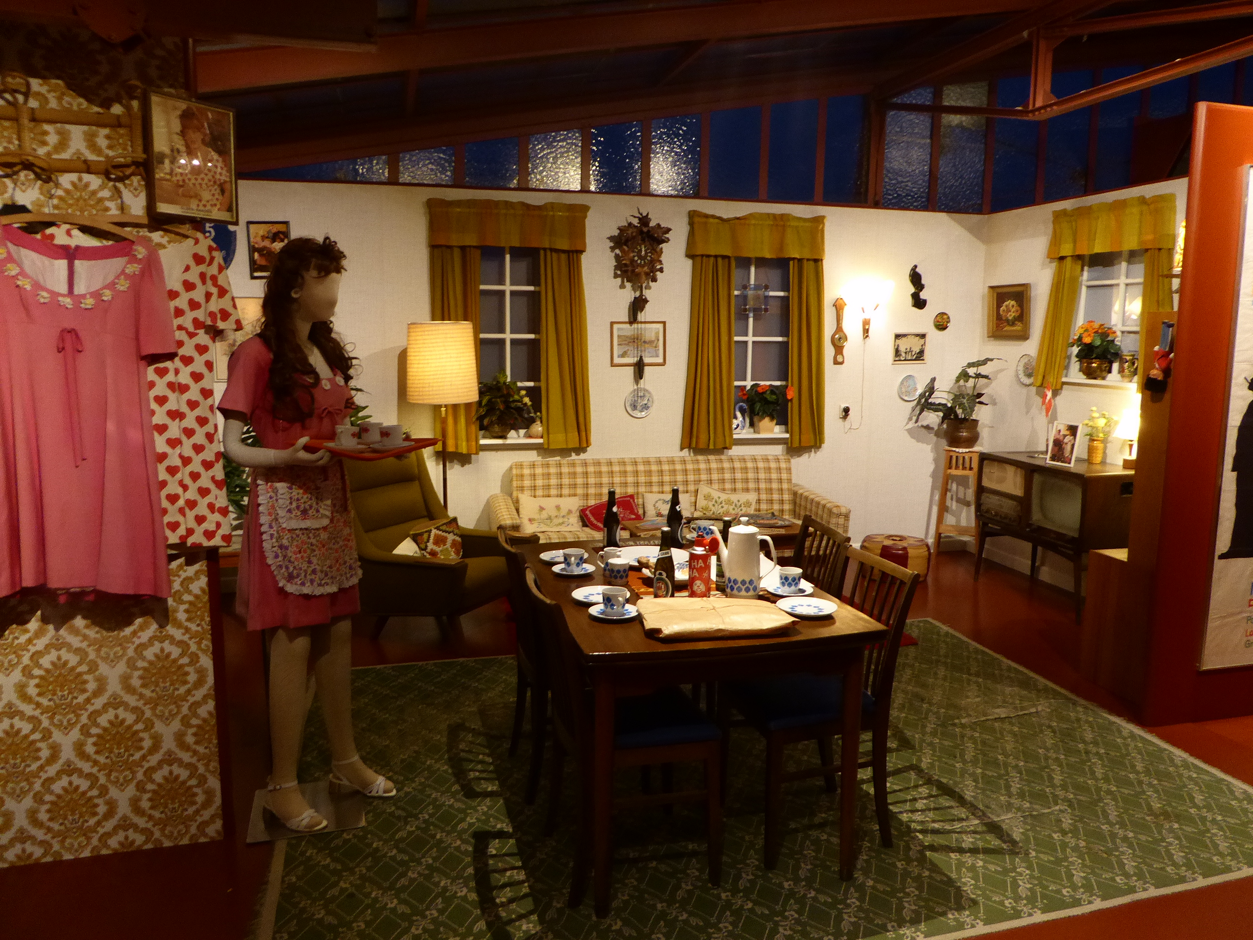 The exhibition Olsen-banden vender hjem at Nordisk Film in Copenhagen with reconstructions of film sets used in the Olsen-banden films. The home of the characters Yvonne (left) and Kjeld.